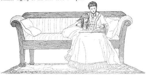 From a drawing by Miss Ostertag in "Old Songs for Young America". Copyright, 1902, by Doubleday, Page & Co.